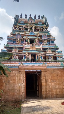 Tirukolambiam kokilesvarar temple திருக்கோழம்பியம் கோகிலேசுவரர் கோயில்